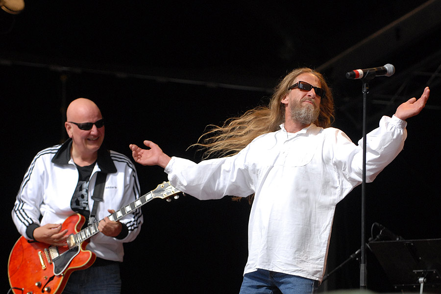 Dance with a stranger at the StatoilHydro free concert in Stavanger 2008.